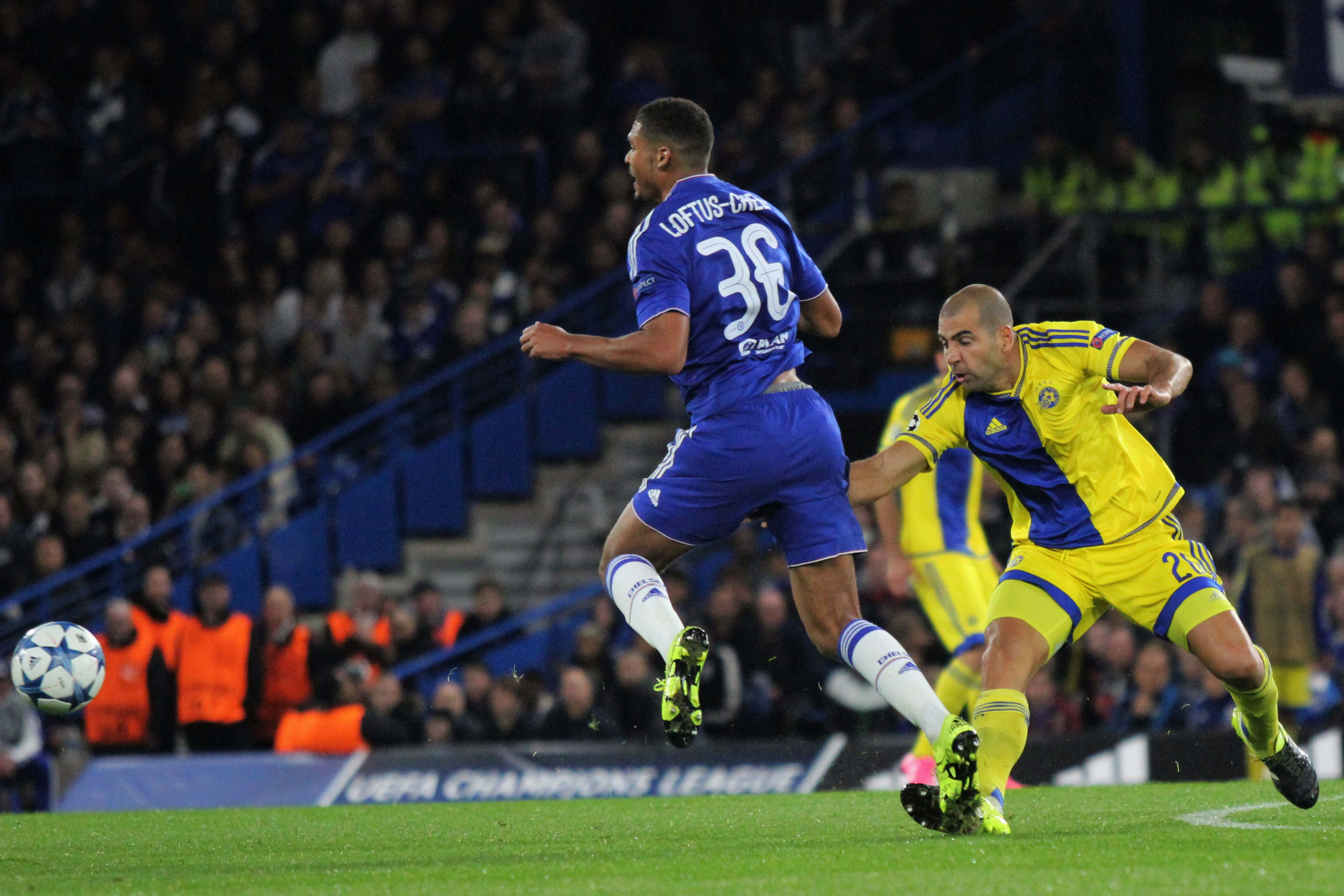 Tal Ben Haim I of Maccabi Tel-Aviv challenges Ruben Loftus-Cheek of Chelsea during the Champions League group stage game.